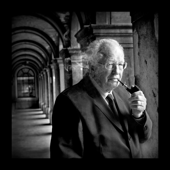 Portrait of Mr. Josephus Antonius van Kemenade